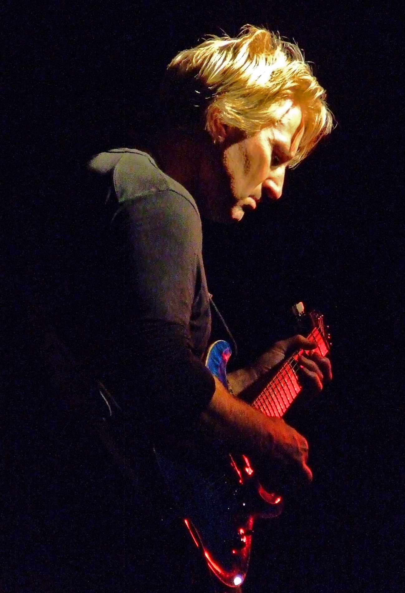 Brett Garsed at Eddie Lang Jazz Festival 2007 in Monteroduni (IS) Italy